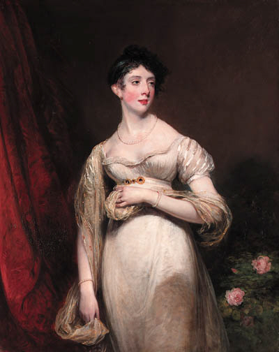 Portrait of Emily Lamb, Countess Cowper (1787-1869), three-quarter-length, in a white dress, beside a red curtain